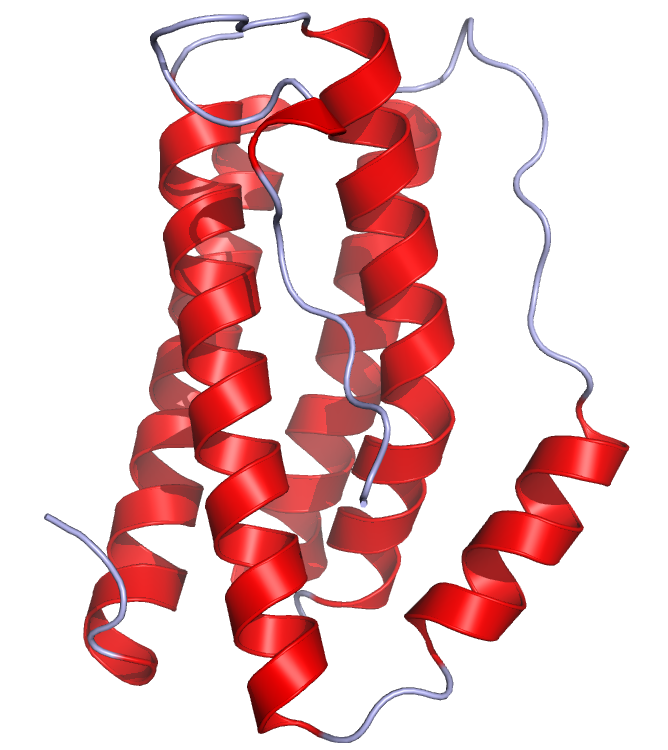 Crystal structure of IL-6 as published in the Protein Data Bank (PDB: 1ALU)